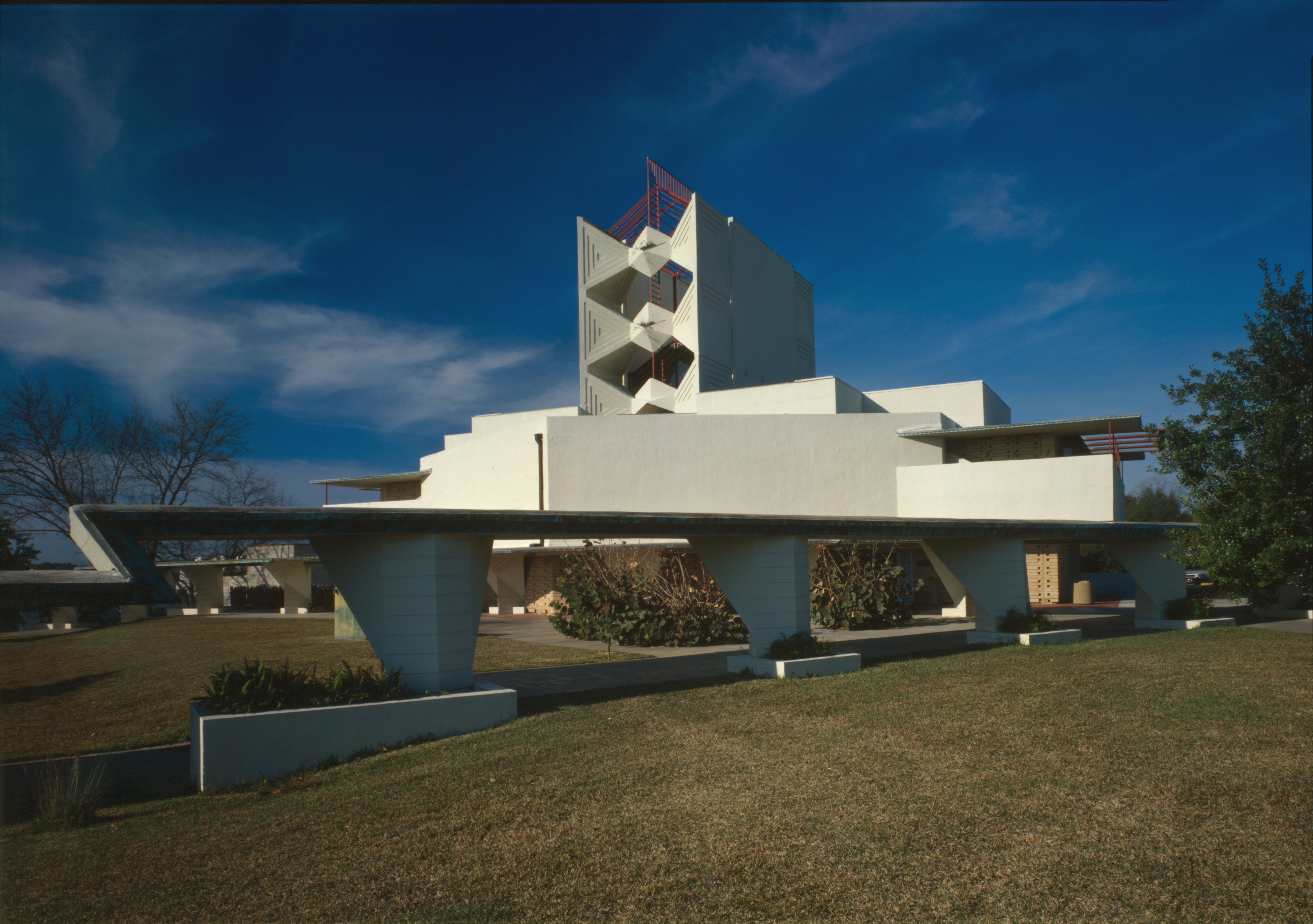 The Pfeiffer Chapel at Florida Southern College — designed by Frank Lloyd Wright. Historic contributing property to the Child of the Sun, also known as the Florida Southern College Architectural District. Image courtesy of federal HABS—Historic American Buildings Survey in Florida project. 5 x 7 in.